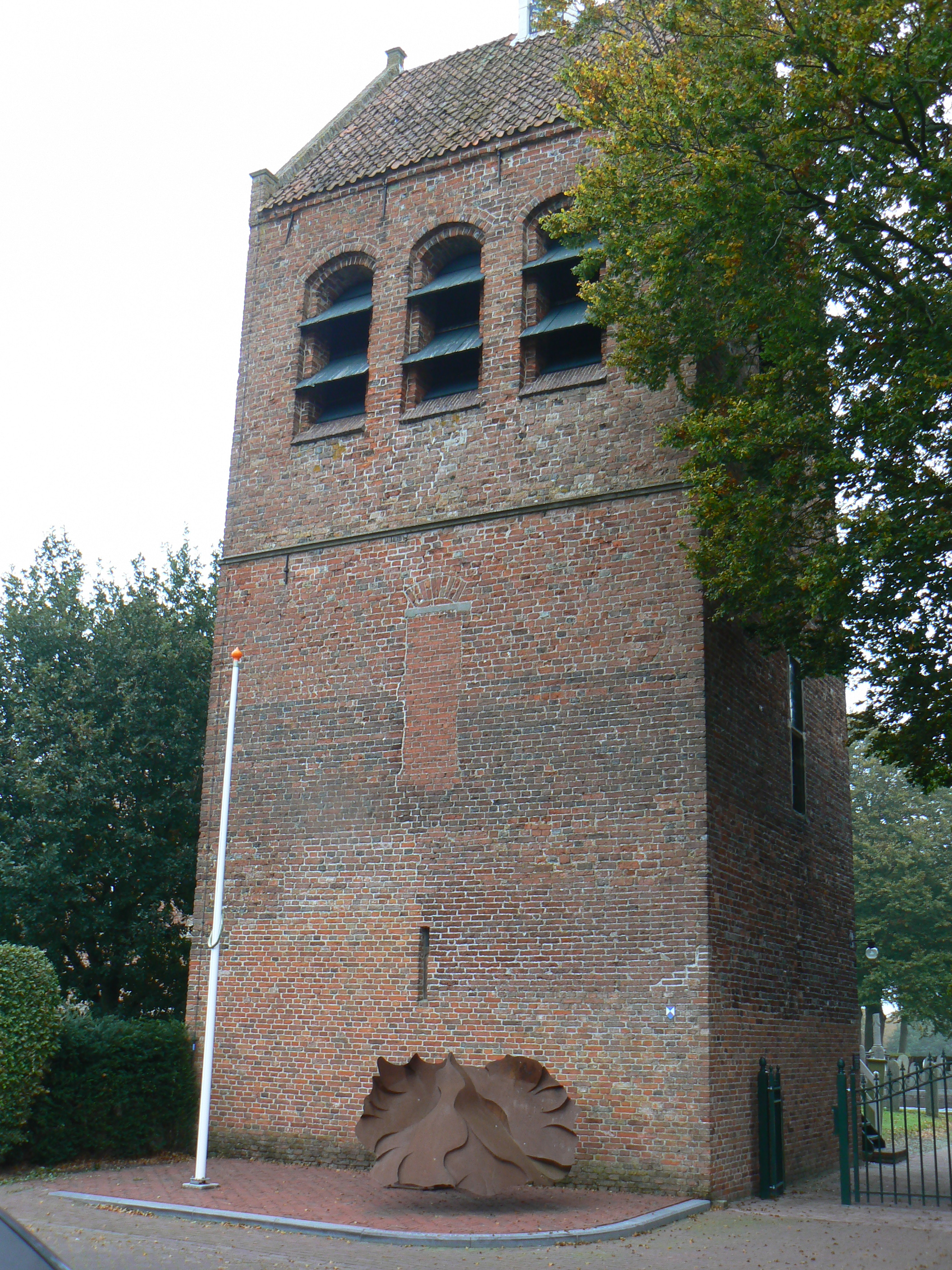 church (15th Century) in Meeden/The Netherlands: Tower (1482) and war-memorial